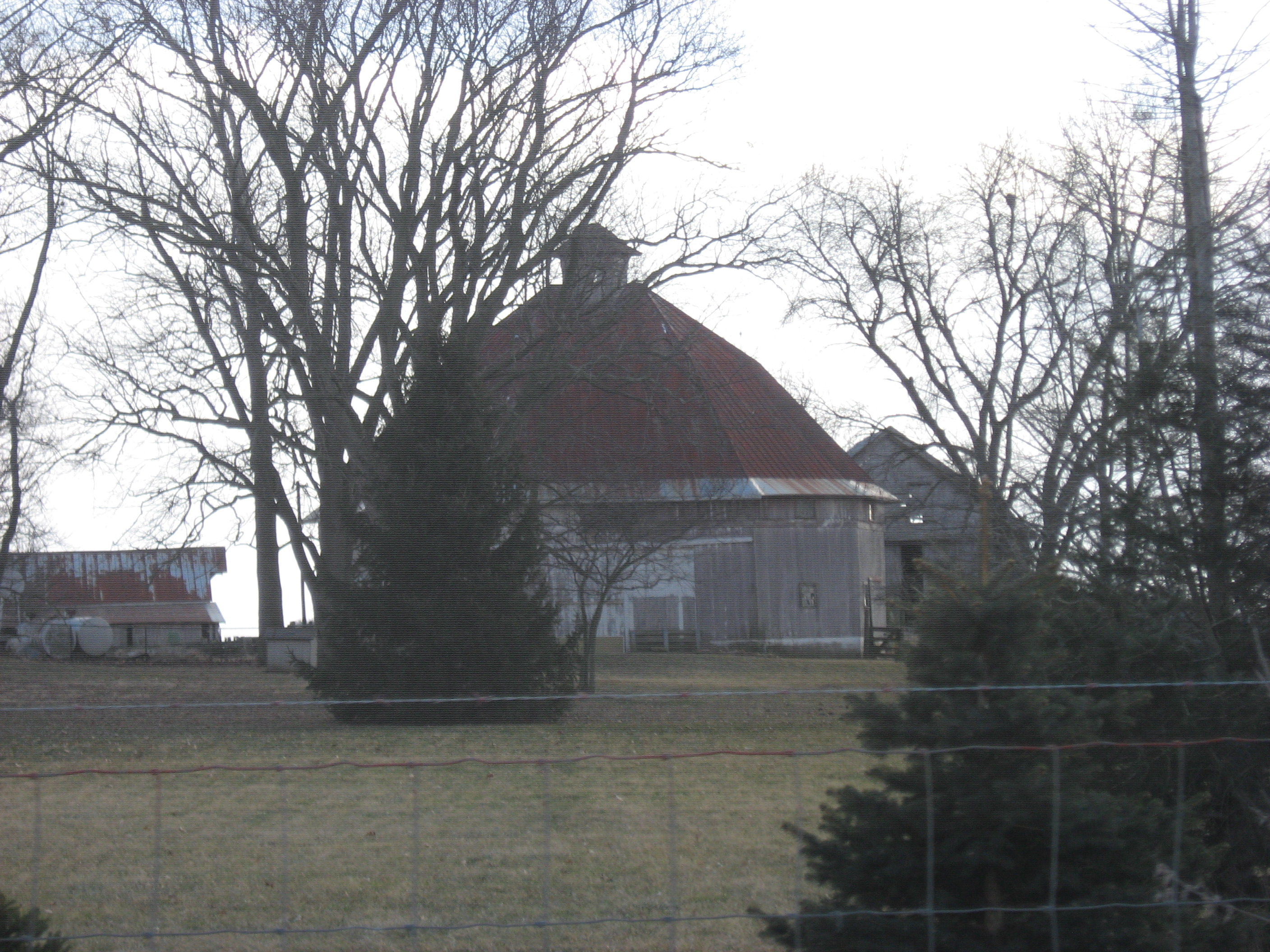 Roadside view of the William Fisher Polygonal Barn, located at 8291 E850N north of Darlington in Sugar Creek Township, Montgomery County, Indiana, United States. Built in 1914, it is listed on the National Register of Historic Places.